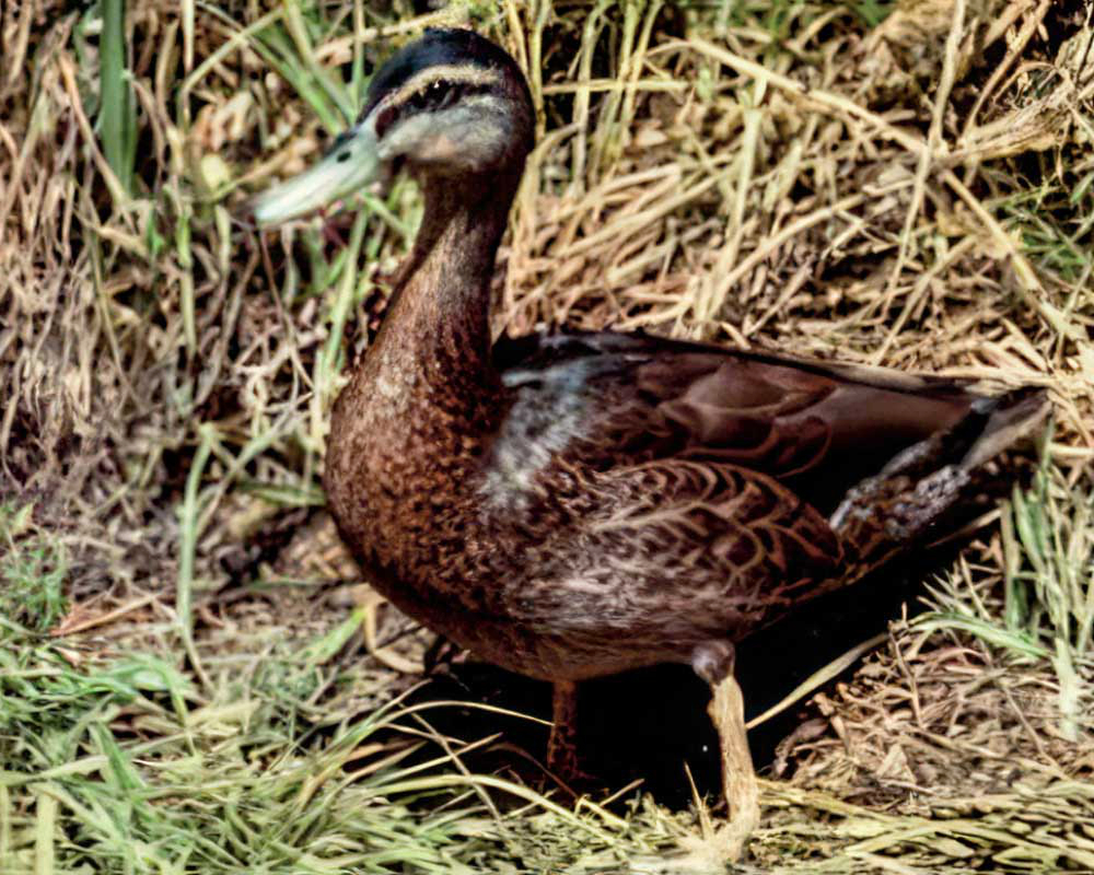 Photo of the last known male of the Mariana Mallard, Anas platyrhynchos oustaleti, during the last-minute attempt to set up a captive breeding program. Taken by Eugene Kridler for the USFWS, either on Hawaii or in San Diego. This bird shows the "superciliosa" (subdued) plumage type.